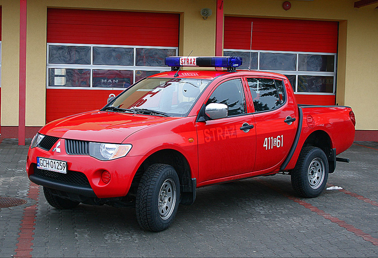 Specialistic Light Rescue Car. Vehicle: Mitsubishi L200 Warn system: ZE-Elektra LZP Fire Brigade: JRG Chojnice